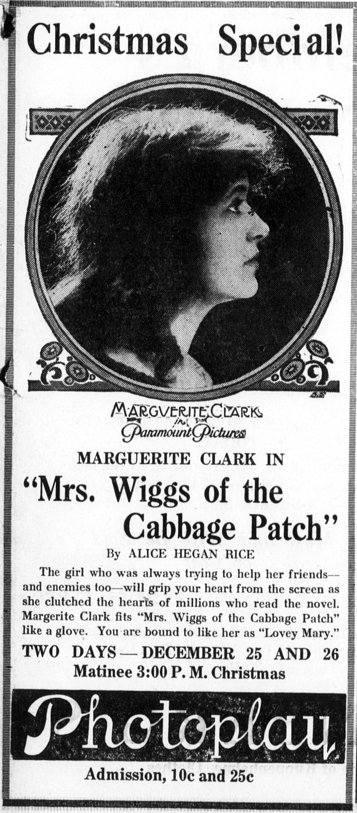 Mrs. Wiggs of the Cabbage Patch is a 1919 silent American comedy-drama film produced by Famous Players-Lasky Corporation and distributed through Paramount Pictures. This is a contemporary newspaper advert for the film.